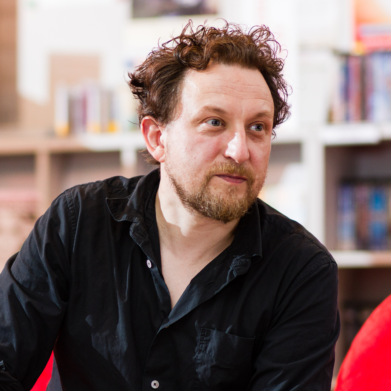 Ewan Morrison on Authors’ Reading Month 2014, Wrocław, Poland